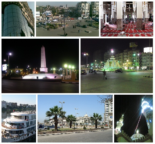 multi photos from Sohag City , Egypt